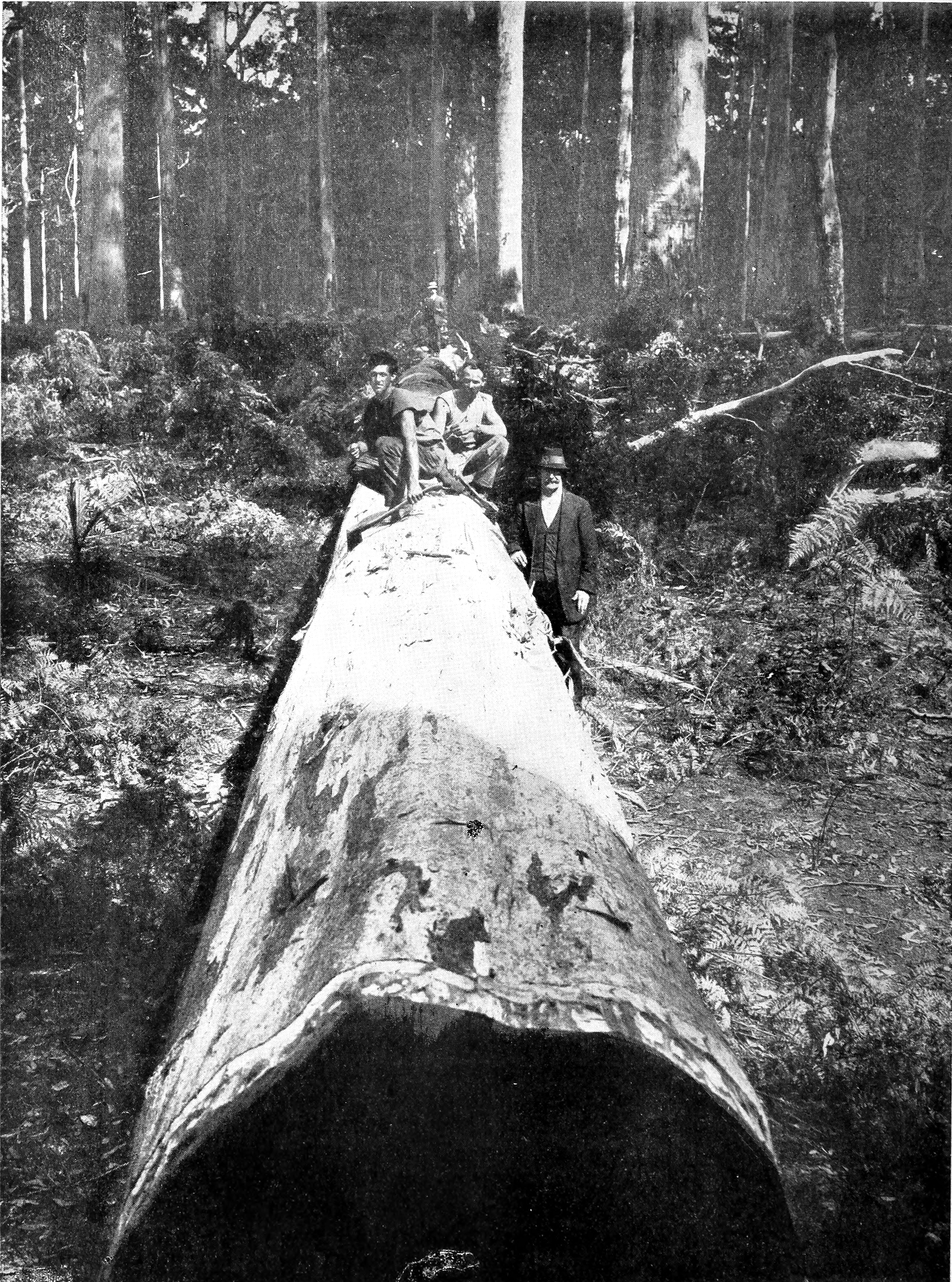 Photograph illustrating source